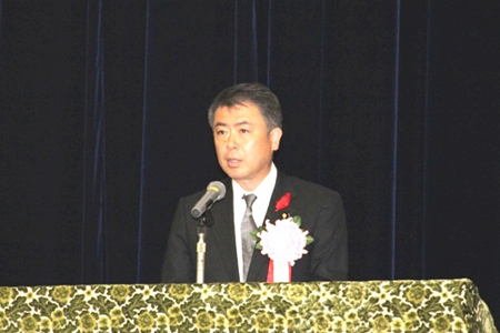 Mitsuru Sakurai, Senior Vice-Minister of Health, Labour and Welfare, attended the commendation ceremony at the Central Government Building No.5 in Chiyoda Ward, Tōkyō Metropolis on October 11, 2012. (For terms of use, see 利用規約｜厚生労働省.)